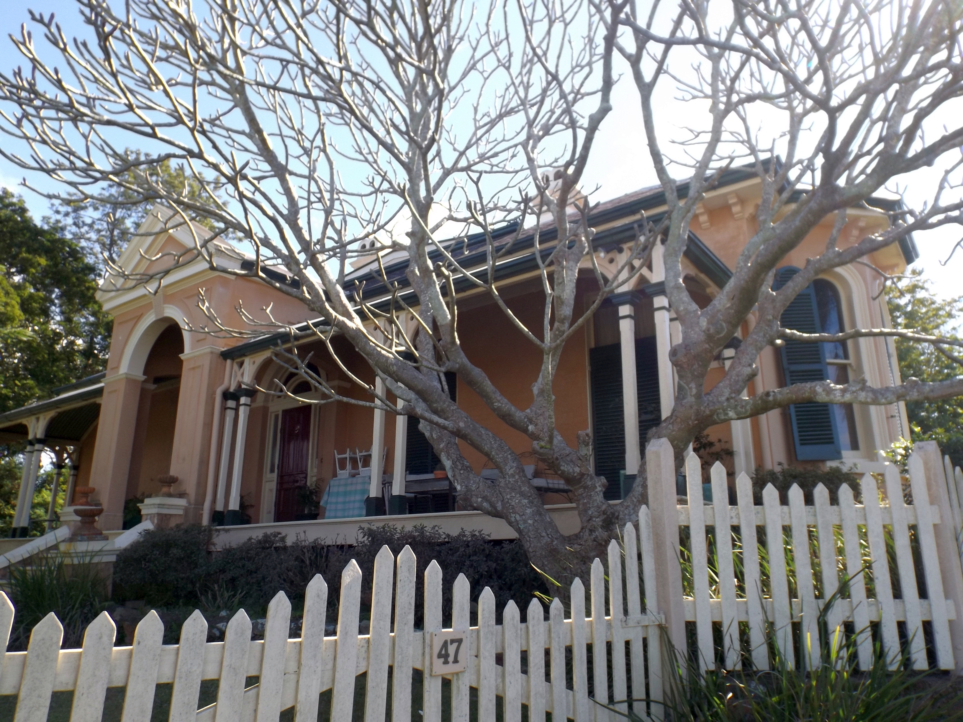 Photo of Wilston House at Wilston, Brisbane, Queensland, Australia.